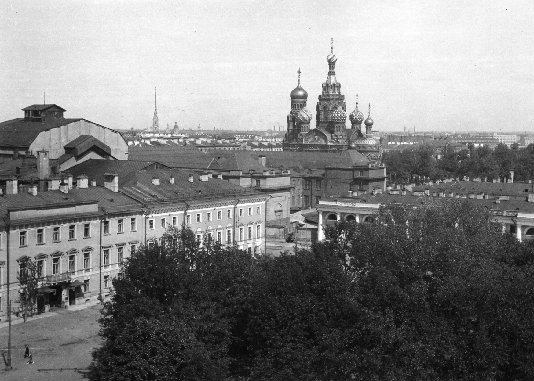 Leningrad, Place of the Arts, 1935. Left: Mikhailovsky Theatre, center: Savior-on-the-Blood, right: the Benois bulding of the Russian Museum Format: Fotopositiv Dato / Date: 1935 Fotograf / Photographer: Eirik Sundvor (1902 - 1992) Sted / Place: Sovjetunionen, Leningrad Eier / Owner Institution: Trondheim byarkiv, The Municipal Archives of Trondheim Arkivreferanse / Archive reference: Tor.H46.B08.F22683 Merknad: Usikker om dette er Vasilijkatedralen. Vasilijkatedralens øverste kuppel er i gull - denne har et fargemøsnter. Fra en reise til Sovjetunionen foretatt av Eirik Sundvor 1935. Eirik Sundvor (1902 - 1992) var journalist i Avisa Nidaros 1924 - 1940 og 1945 - ca. 1957. Sundvor flyktet til England med sin kone under krigen. Der var han redaksjonssekretær i Norsk Tidend i London. Sundvor hadde god kjennskap til russisk, og ble derfor sendt som major med oberst Arne Dahls ekspedisjon til Finnmark i 1944 / 1945. Sundvor stod for utgivelsen av den første frie norske avis i Finnmark i 1945. Etter at Avisa Nidaros gikk inn som dagsavis flyttet han tilbake til Bergen, hvor han opprinnelig kom fra. Her virket han som korrespondent for Dagbladet i Vest-Norge.